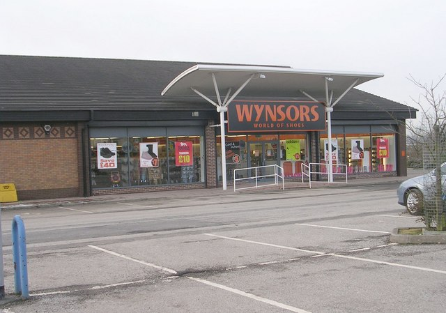 Wynsors World of Shoes - Tong Street